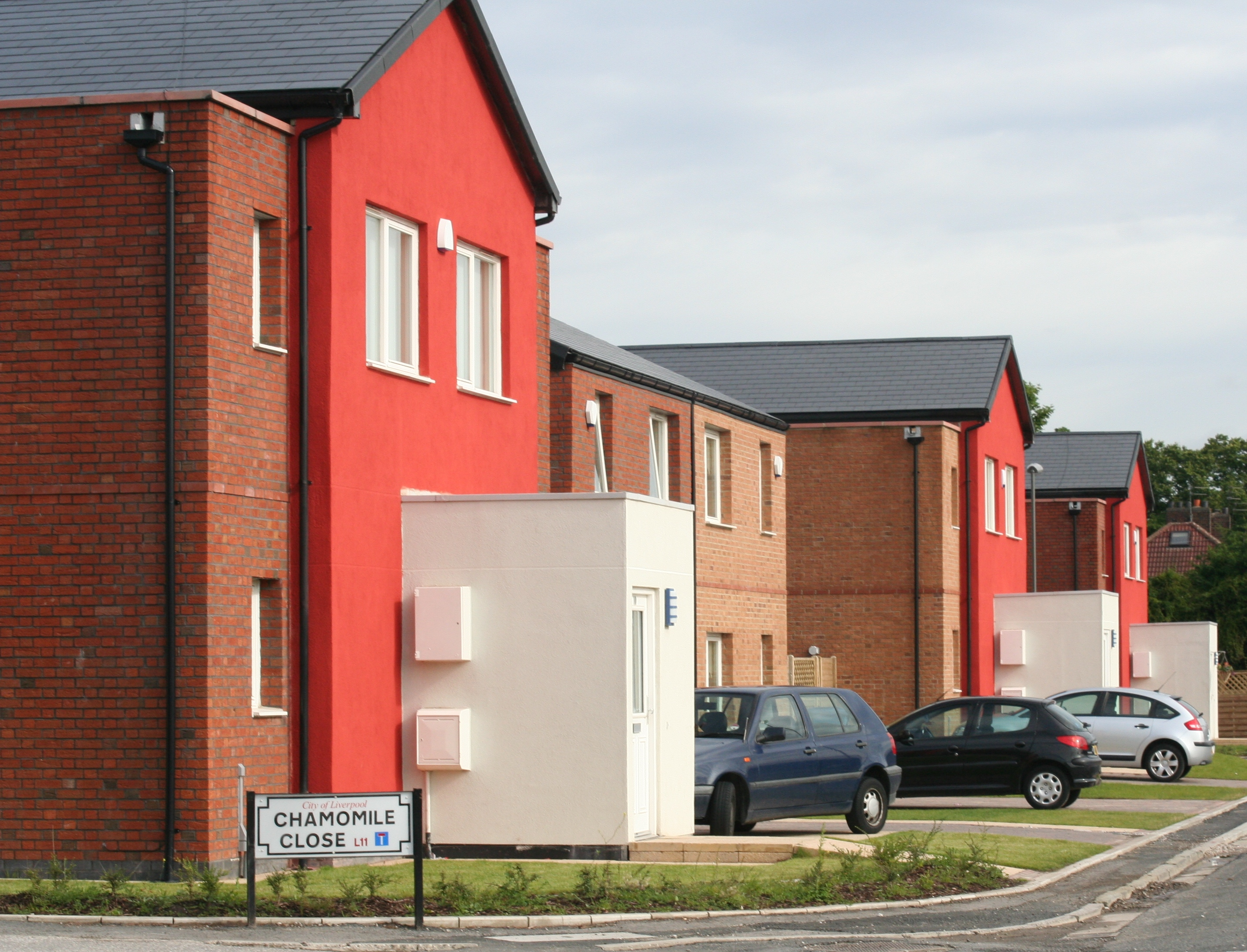 Featured images for Douglas Jarvie Clelland Wikipedia article